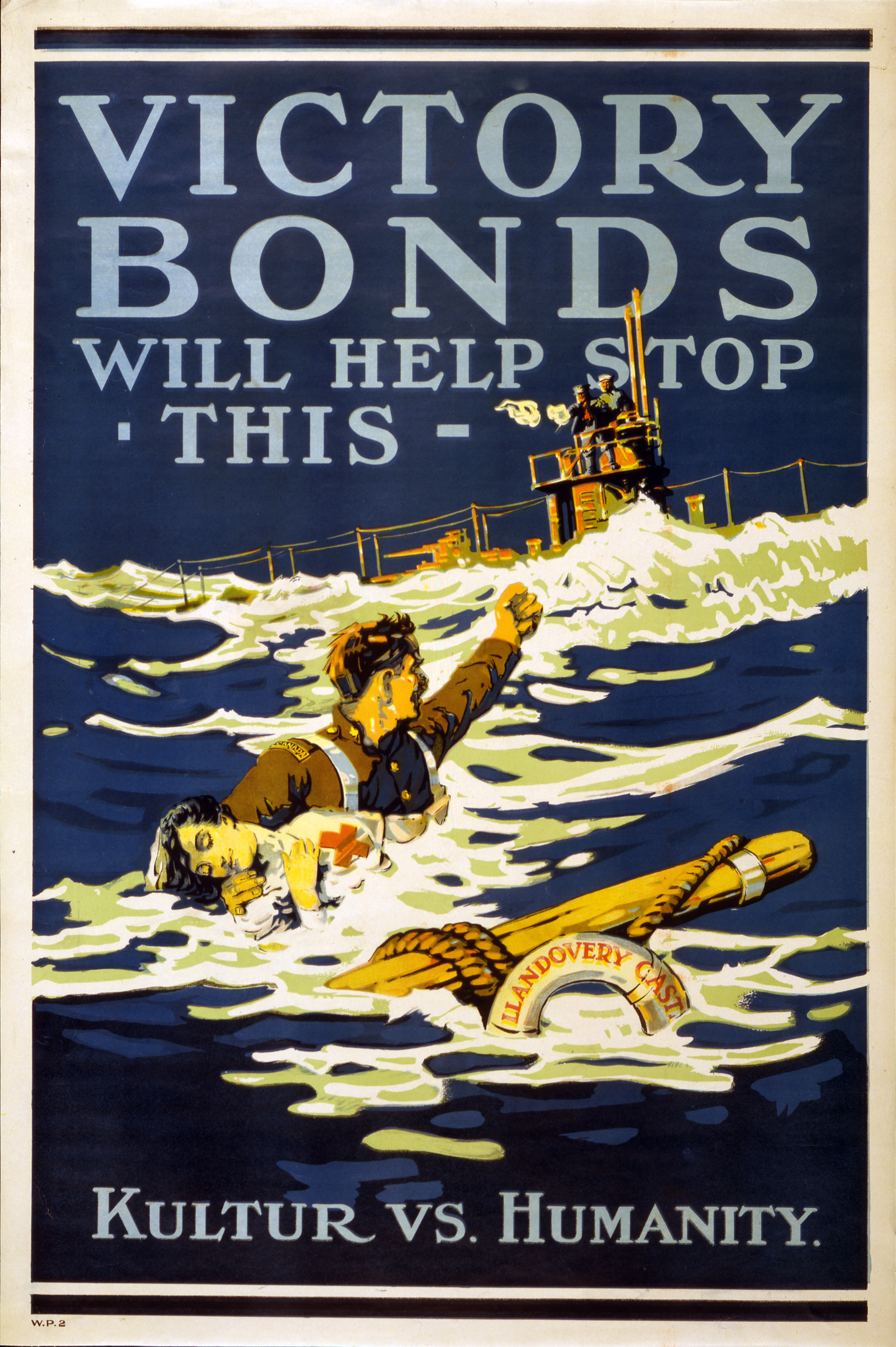 "Victory Bonds will help stop this. Kulture vs. humanity" - Poster shows a Canadian soldier holding a drowned Red Cross worker and raising his fist at the sailors on the nearby German submarine. Poster is a reference to the sinking of the Canadian Red Cross transport ship Llandovery Castle.